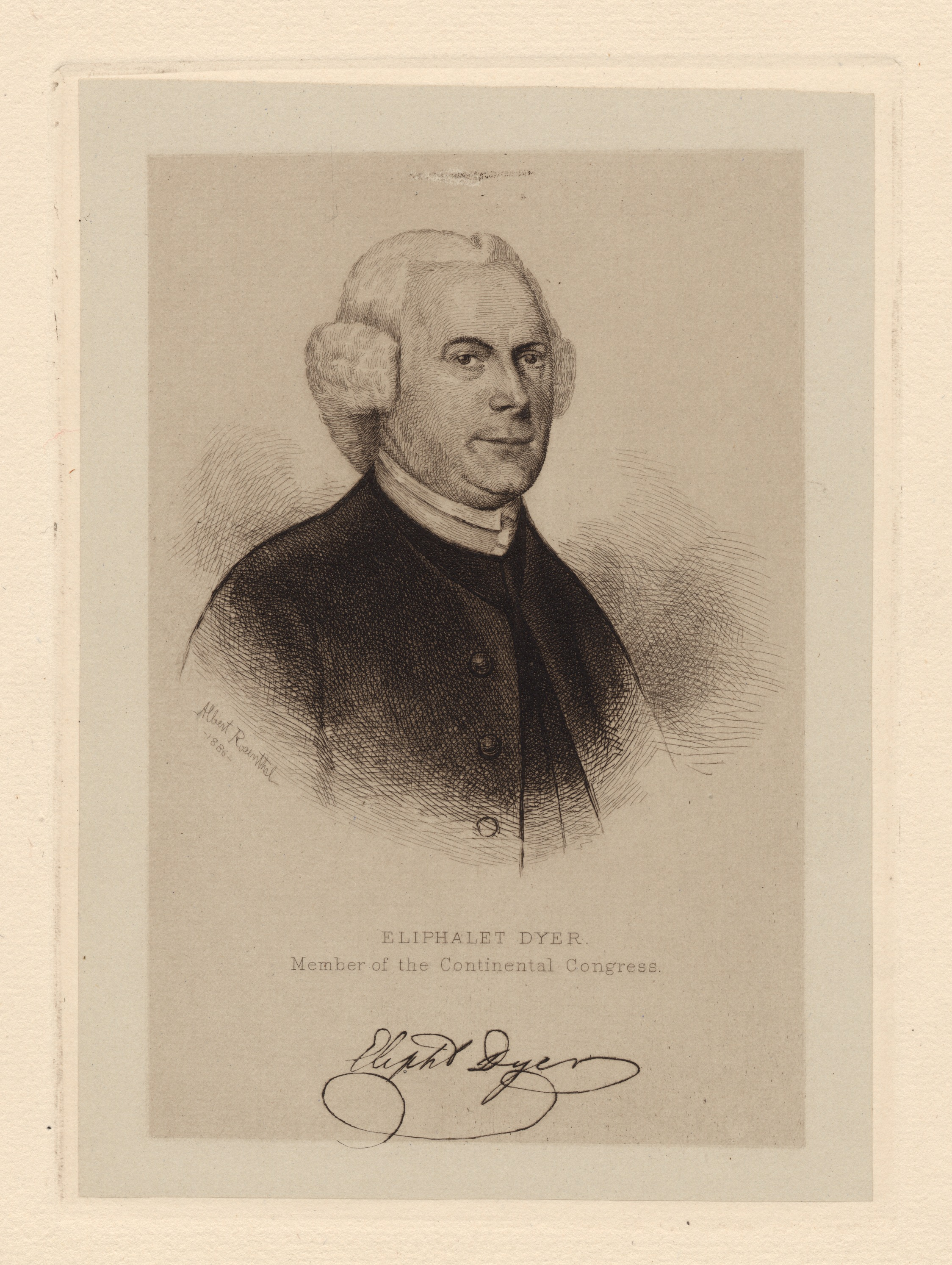 Title from Calendar of Emmet Collection. Citation/reference : EM184